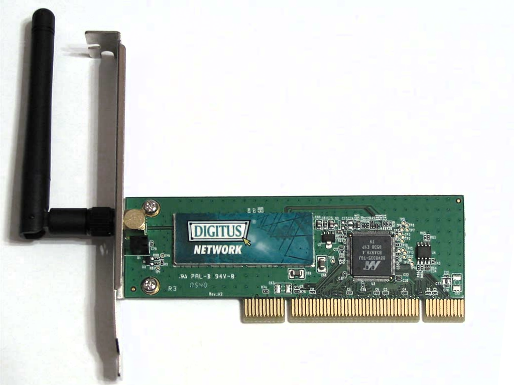 54 Mbit/s WLAN PCI Card (802.11g). Modified by Richard Wheeler (Zephyris) 2007.